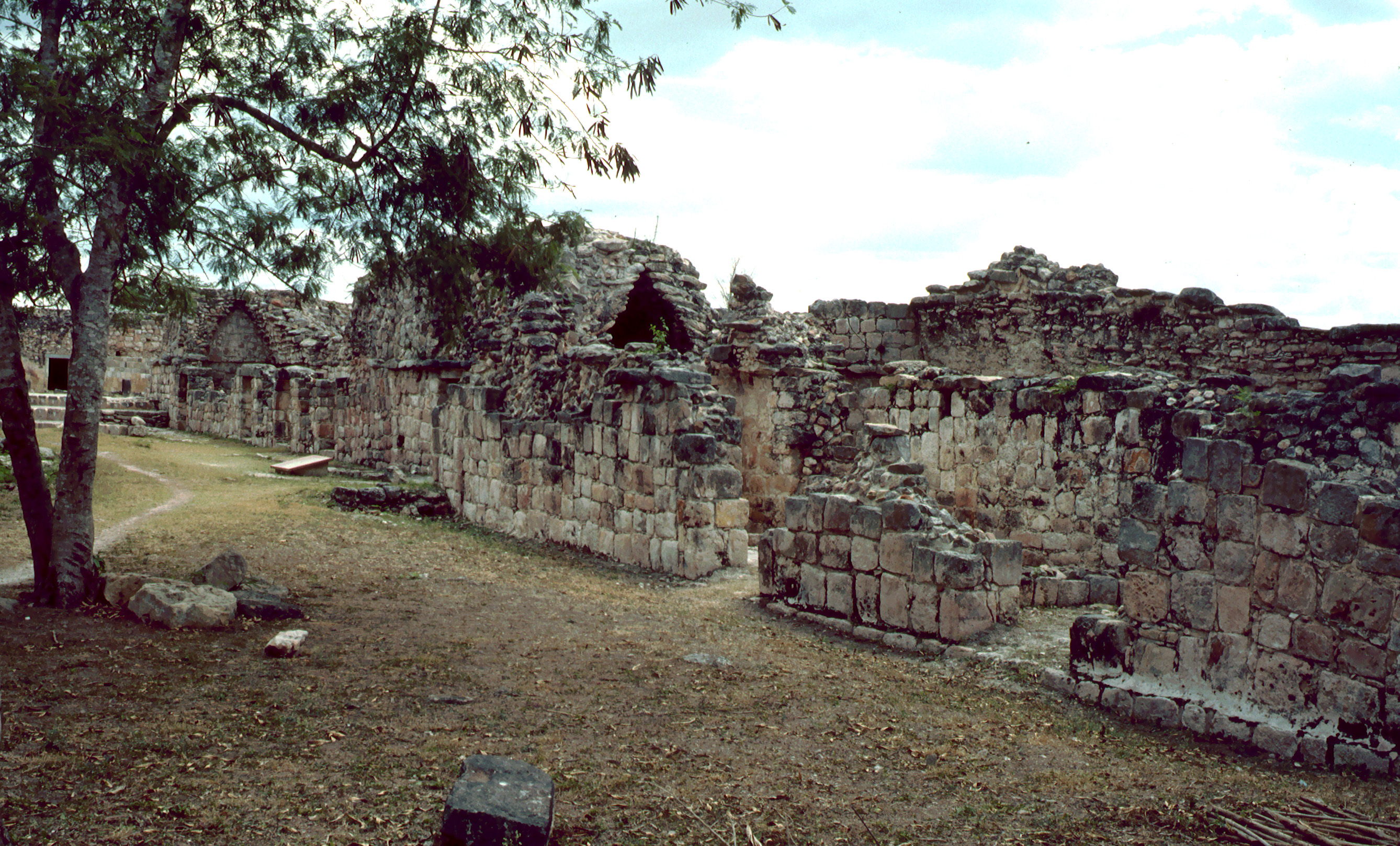 Oxkintoc, Yucatan, Mexico: Group Ah Canul, structures 5 and 6.